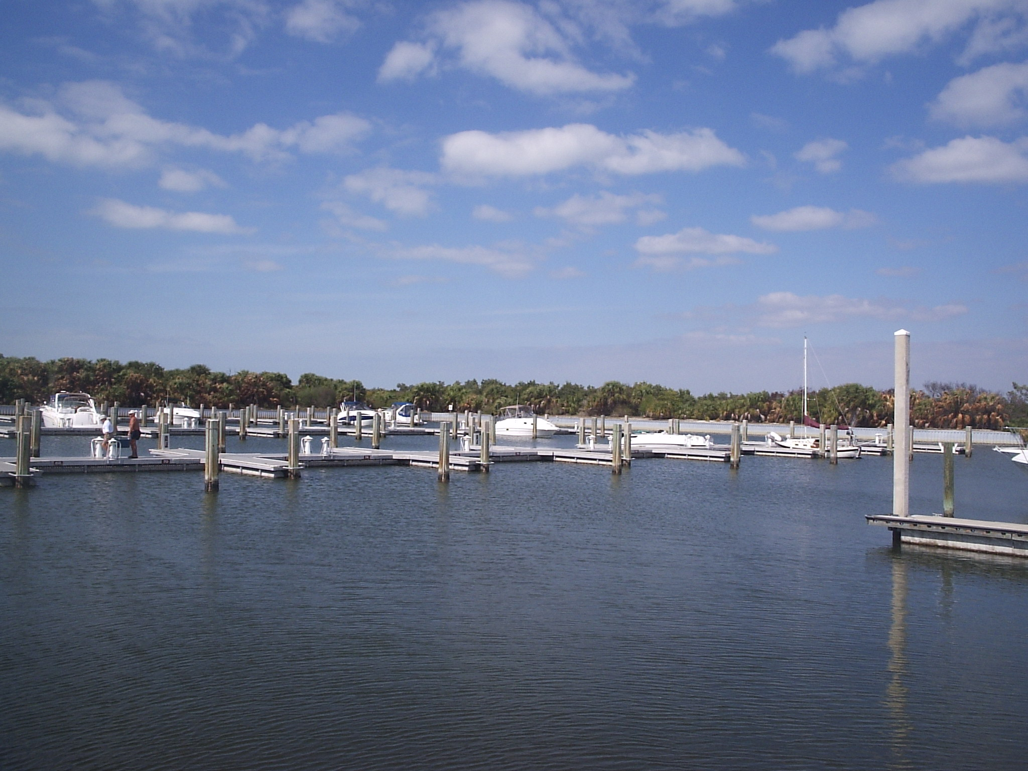 Taken by me on March 9, 2006. Olympus Camedia D-395 digital camera. Mikereichold 14:55, 11 March 2006 (UTC)